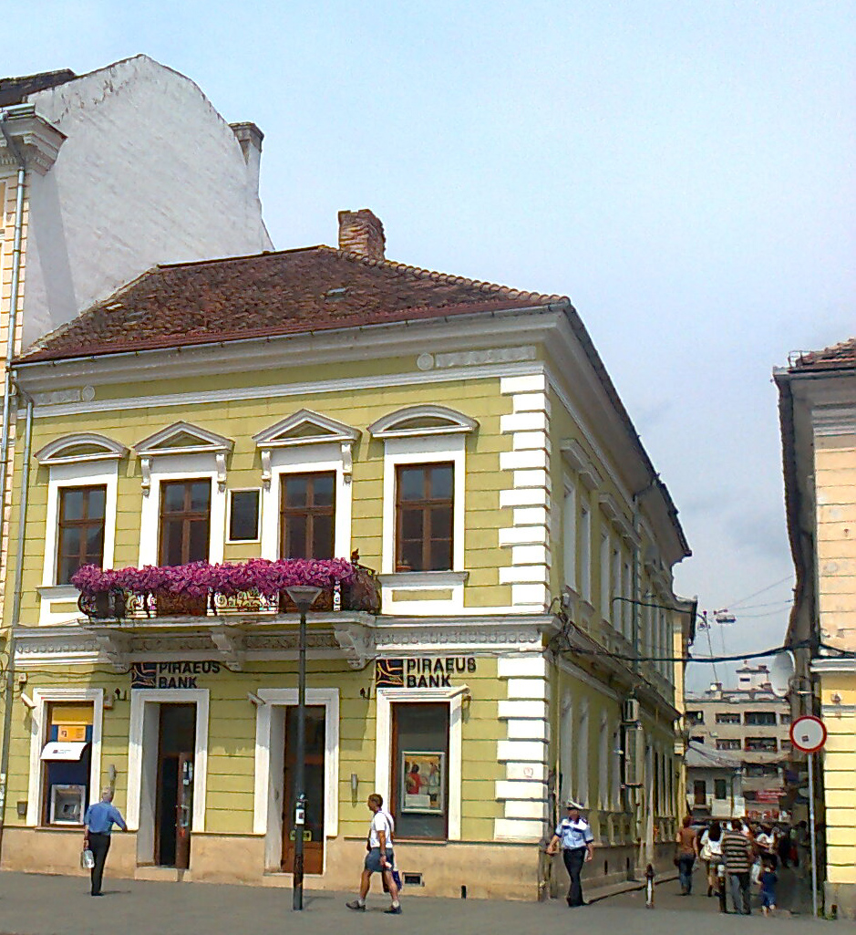 Birth-house of János Bolyai (1802-1860) in Kolozsvár (Cluj Napoca) built before 1900